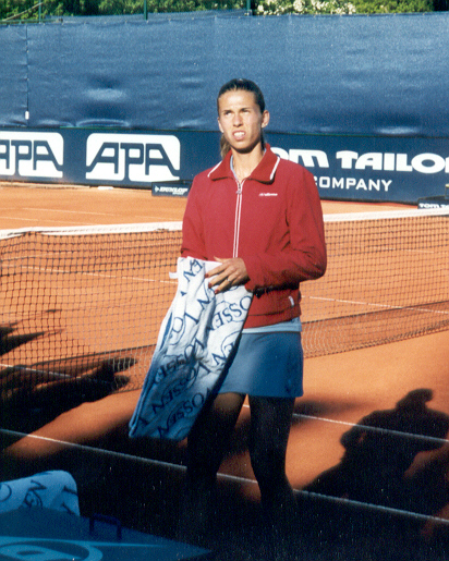 Ljubomira Bačeva, retired professional tennis player from Bulgaria